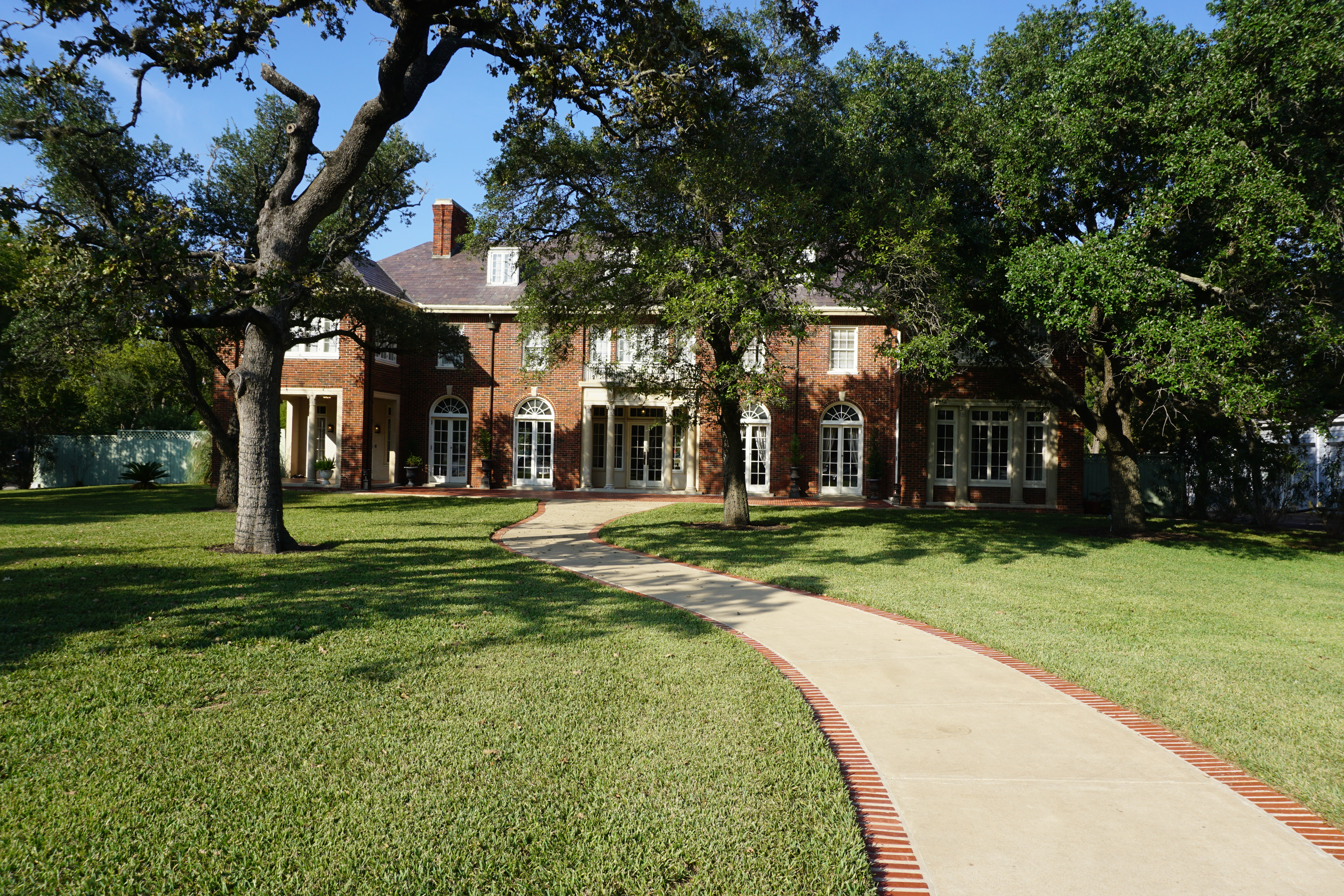 Front of the Astin Mansion